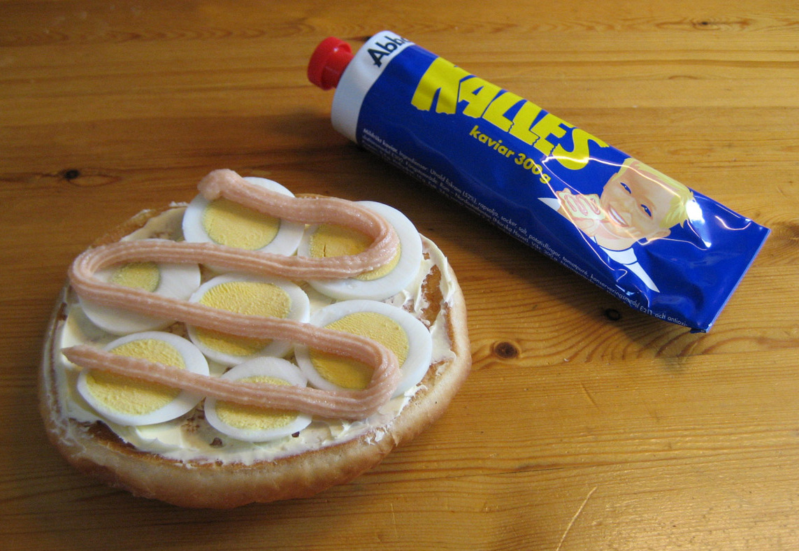 Typical Swedish sandwich with hard-boiled eggs and cod roe from a tube.